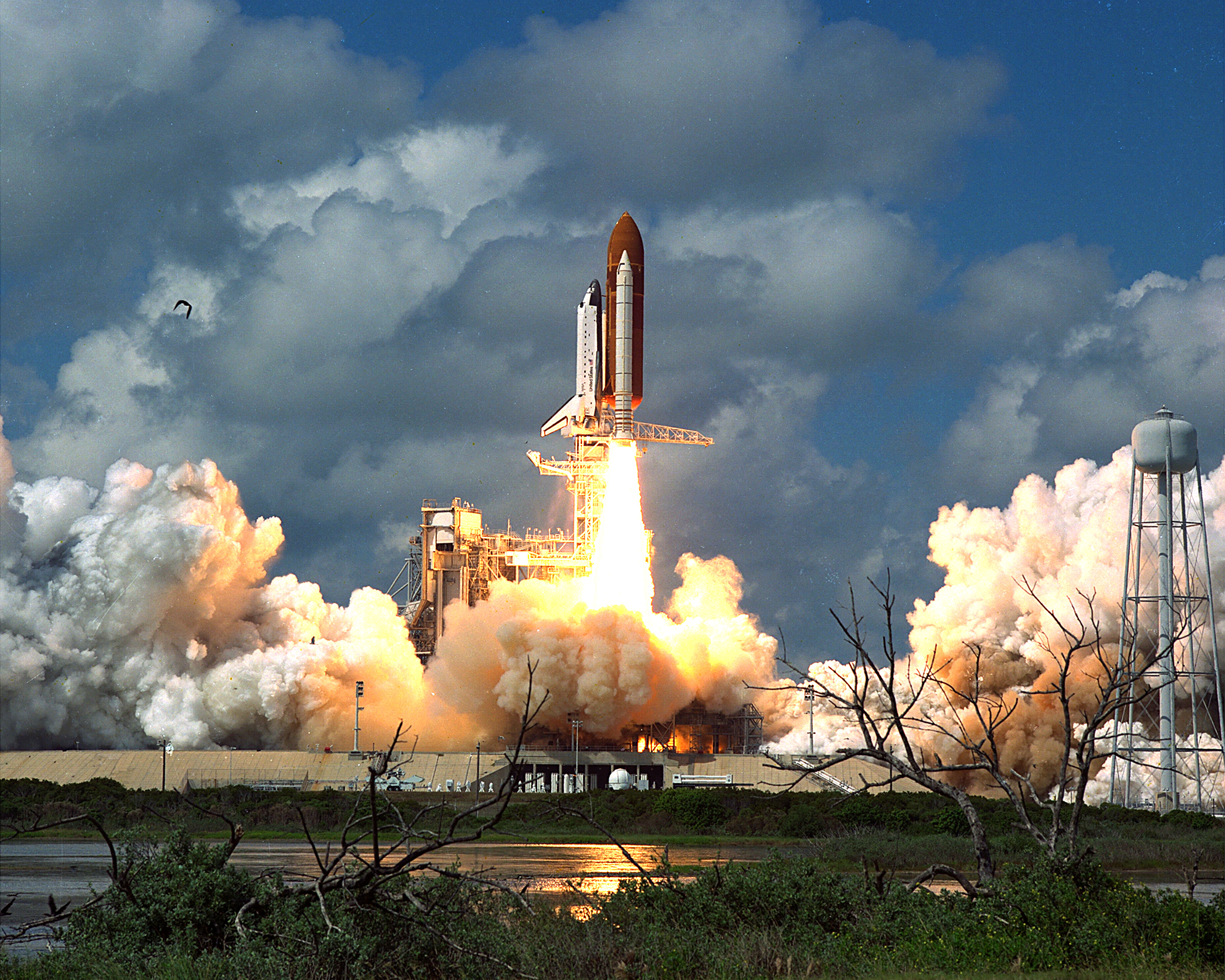 The Return to Flight launch of the Space Shuttle Discovery and its five-man crew from Pad 39B at 11:37 a.m. September 29, 1988, as Discovery embarked on a four-day, one-hour mission.